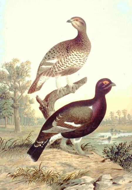 Lyrurus tetrix × Tetrao urogallus (syn. Tetrao medius)